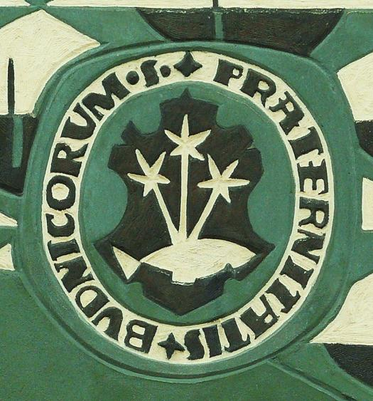 The Domki Budnicze Houses in Old Market in Poznan (detail).